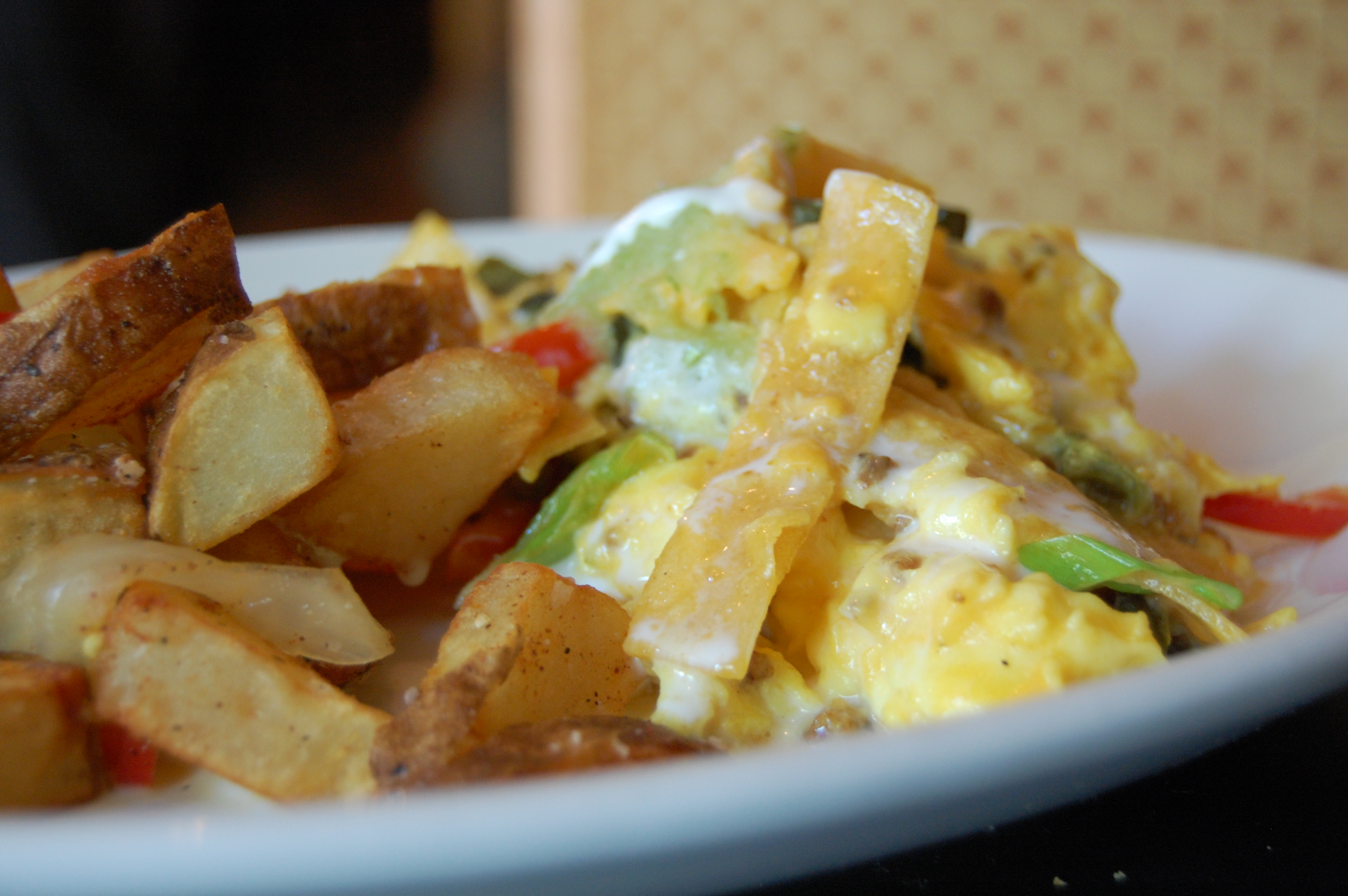 house made chorizo sausage. nice heat